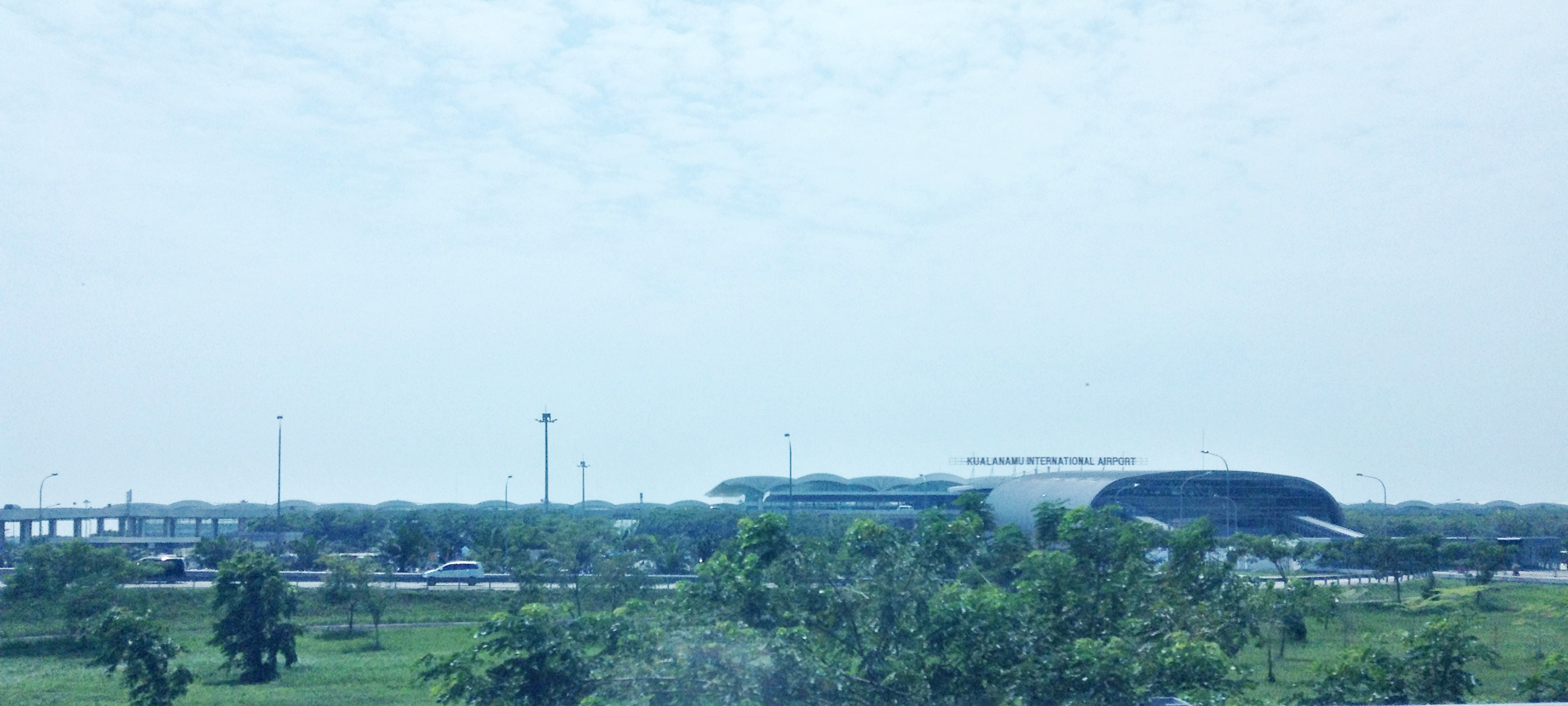 Front view of Kualanamu International Airport